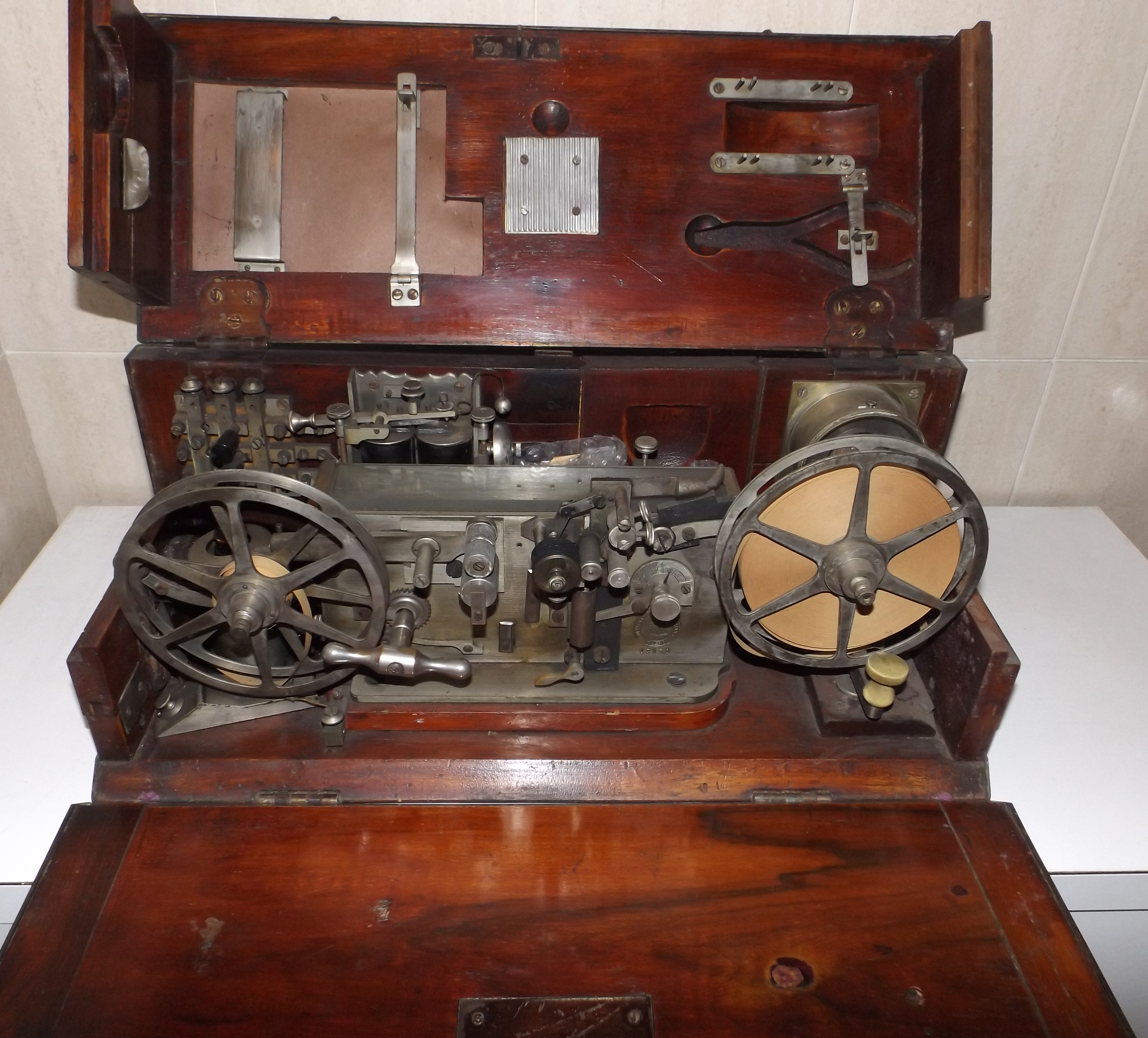 Portable military telegraph